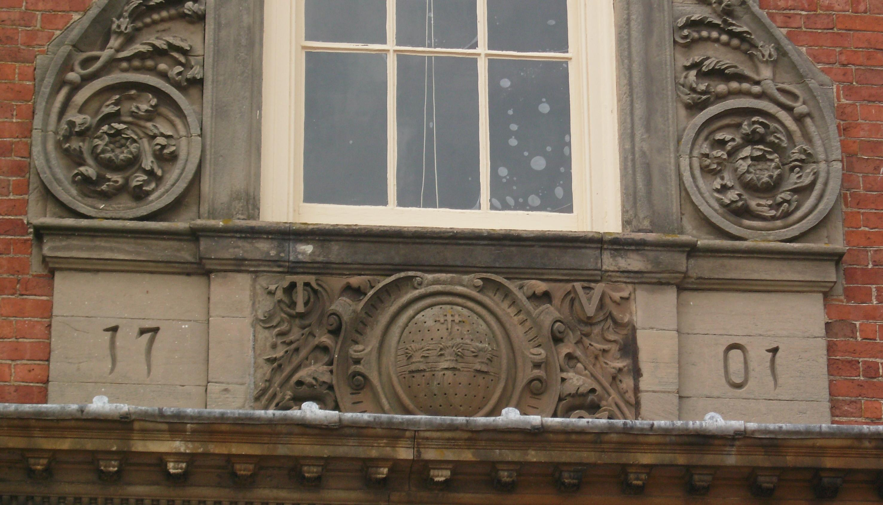 Relief below a window of Hanbury Hall, Worcestershire, England, including the family coat of arms and date "1701"